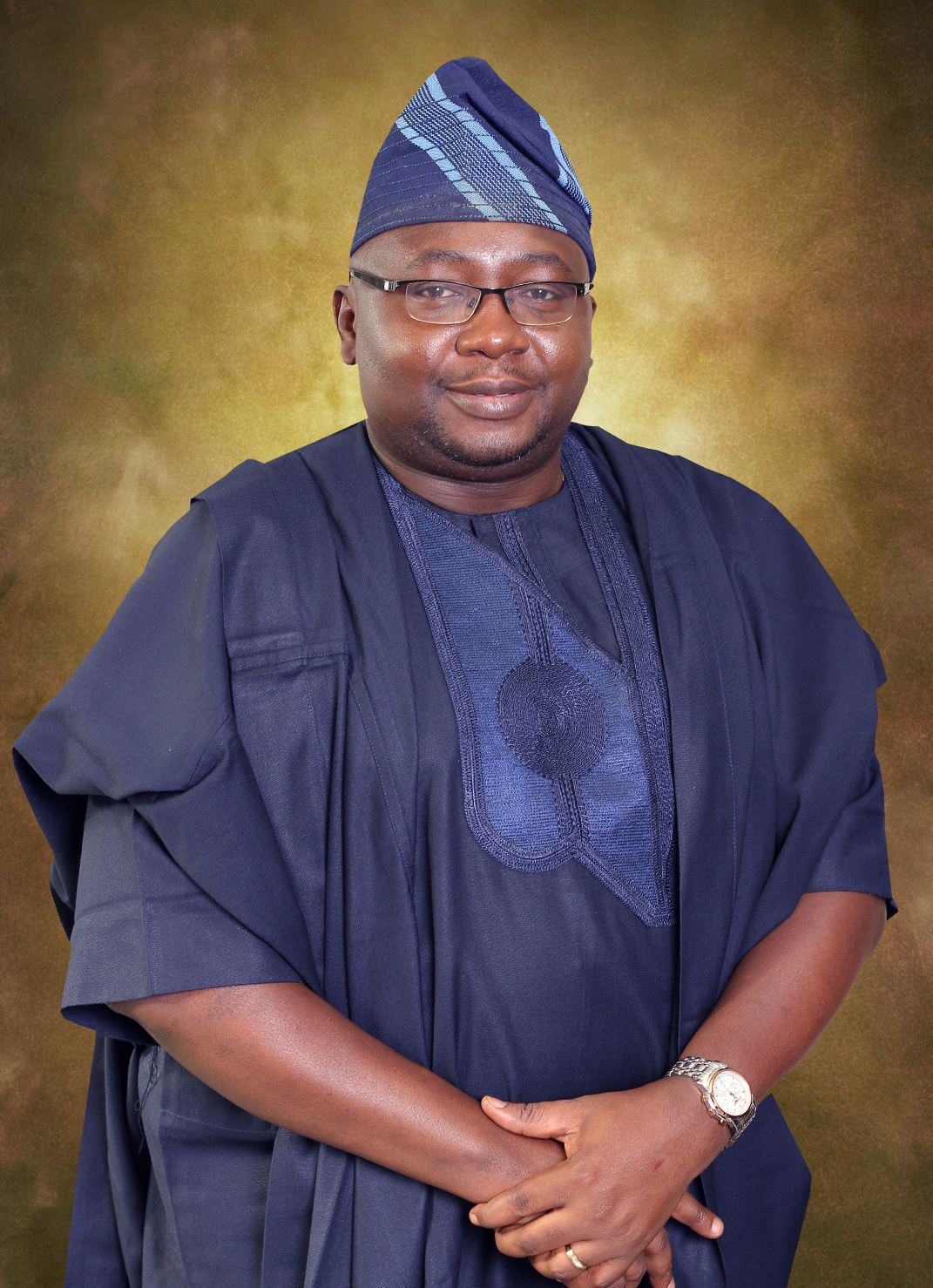 This is a profile photo portrait of Bayo Adelabu